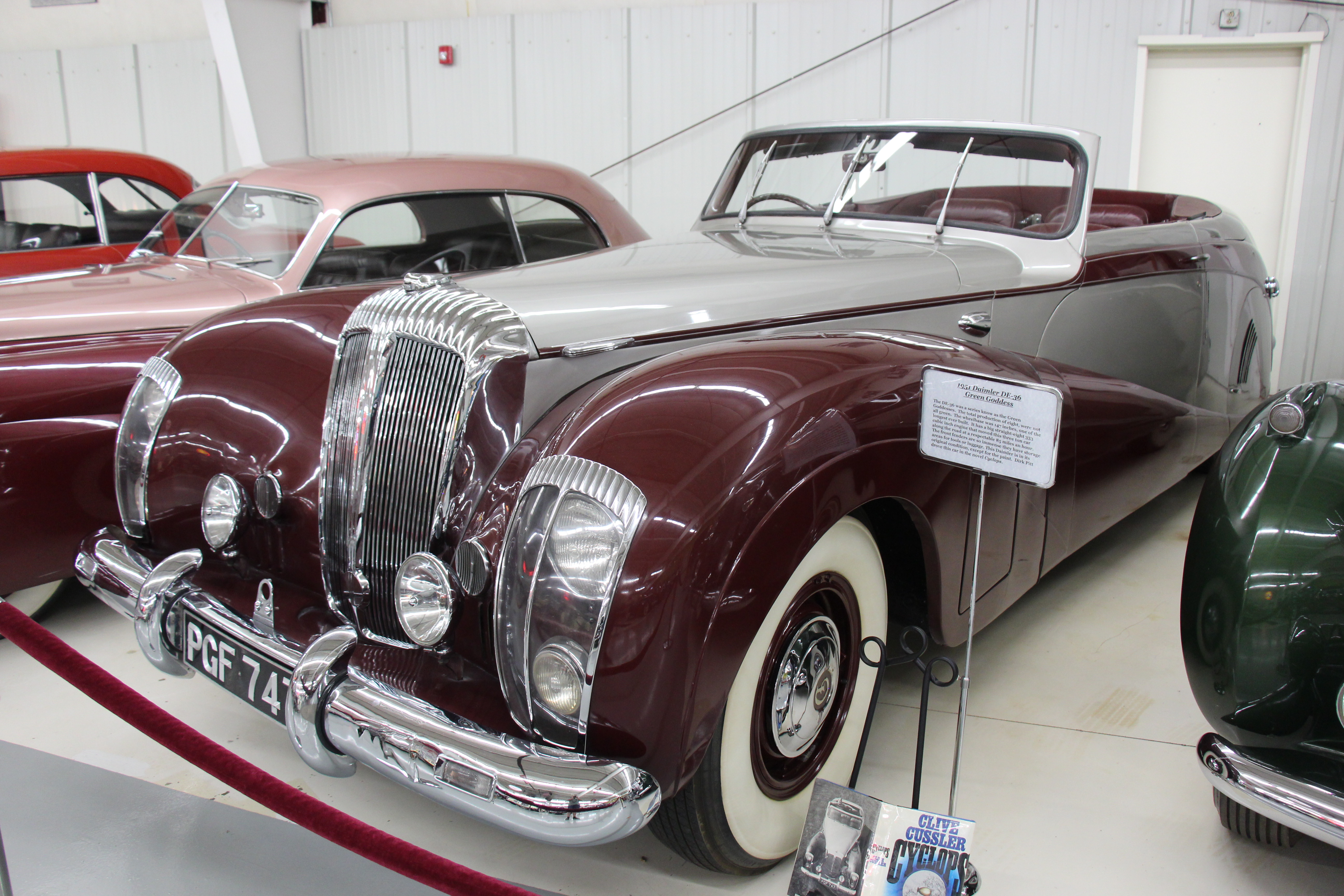 The Daimler DE was a series made from 1946-53. The DE chassis were the basis for Daimler's largest and most expensive cars at the time. There were two versions: the short-wheelbase DE 27 with six cylinder engine, and the long-wheelbase DE 36, the last Daimler Straight-Eight. Daimler DEs, especially the DE 36 Straight-Eight, was sold to royalty and heads of state around the world. The DE-36 was offered in saloon, limousine and drophead coupe body styles. Daimler and its coachbuilding subsidiary, Hooper, built three show cars on DE 36 chassis for display at the annual Earls Court Motor Show: 1947; the 'Green Goddess', a 5-seat drophead coupé, 1951; the 'Golden Daimler', a touring limousine and 1952; the 'Blue Clover', a 5-seat fixed-head coupé. A total of 8 Green Goddesses were built, not all green Engine; 5400cc straight 8 Photographed at the Cussler Museum